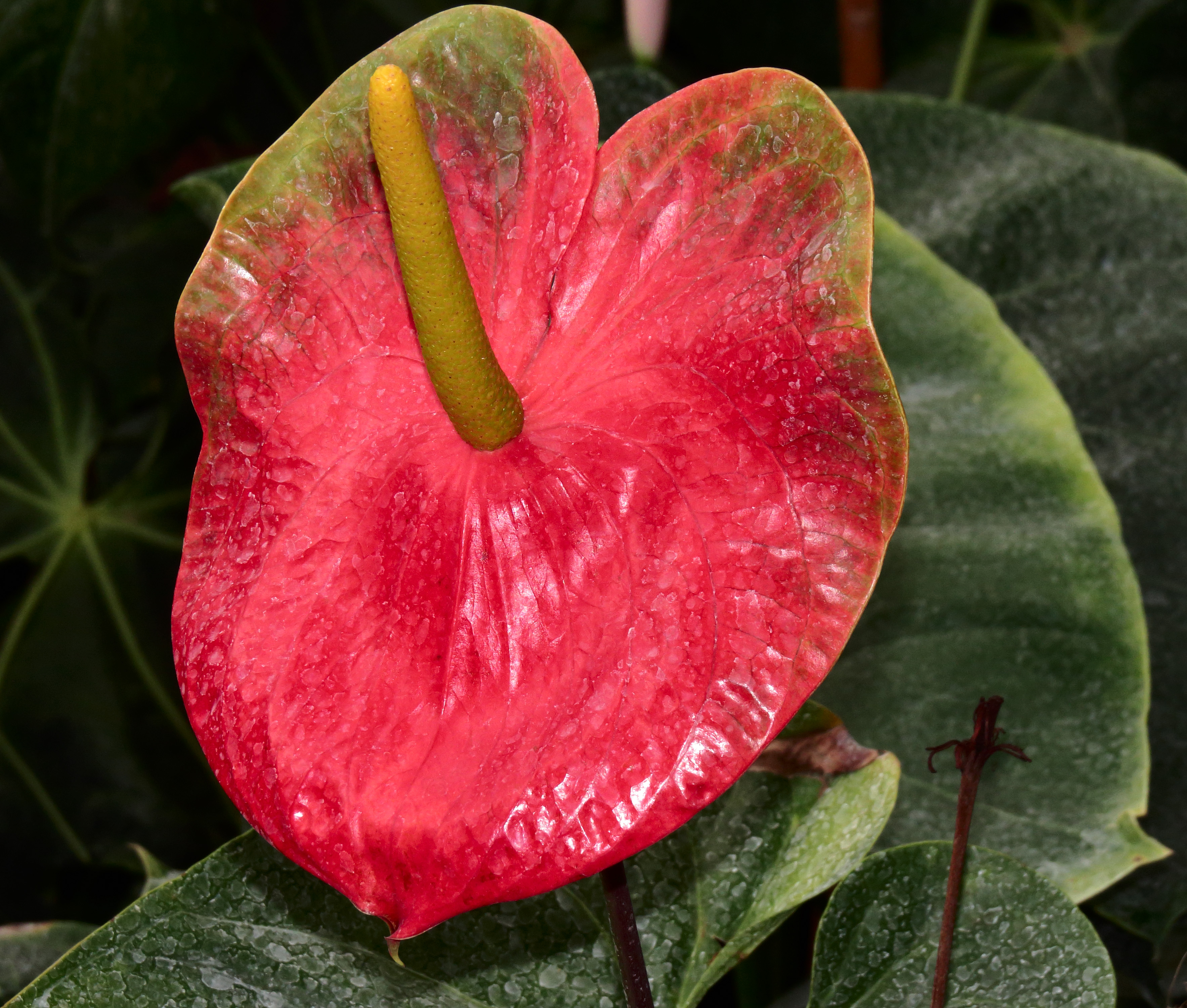 Anthurium (not as described Anthurium hookeri) in Grishko botanical garden, Kiev, Ukraine